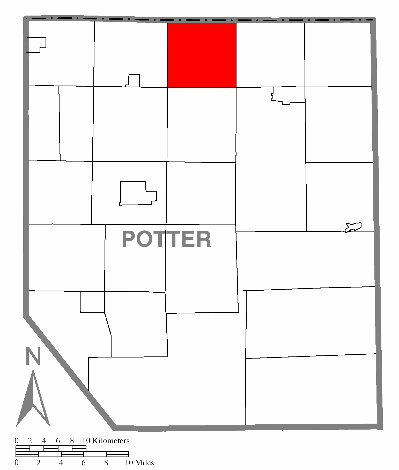 A map of Potter County showing Genesee Township, Pennsylvania (alternate) highlighted on the map.